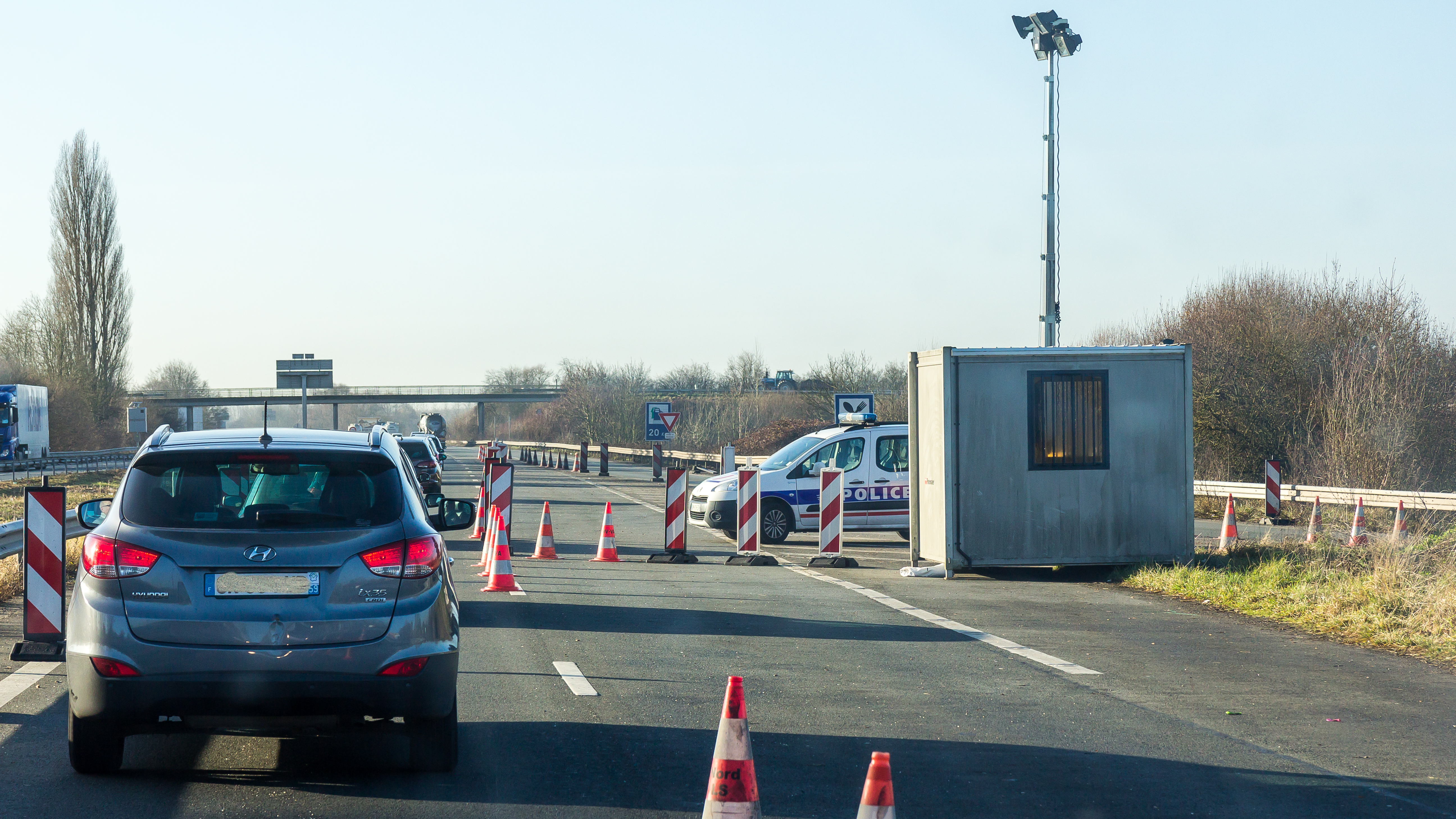 Belgian-French Border Autoroute A7 at Valenciennes. Two lanes are narrowed down to one lane for border control duties by the France police due to the state of emergency in France.